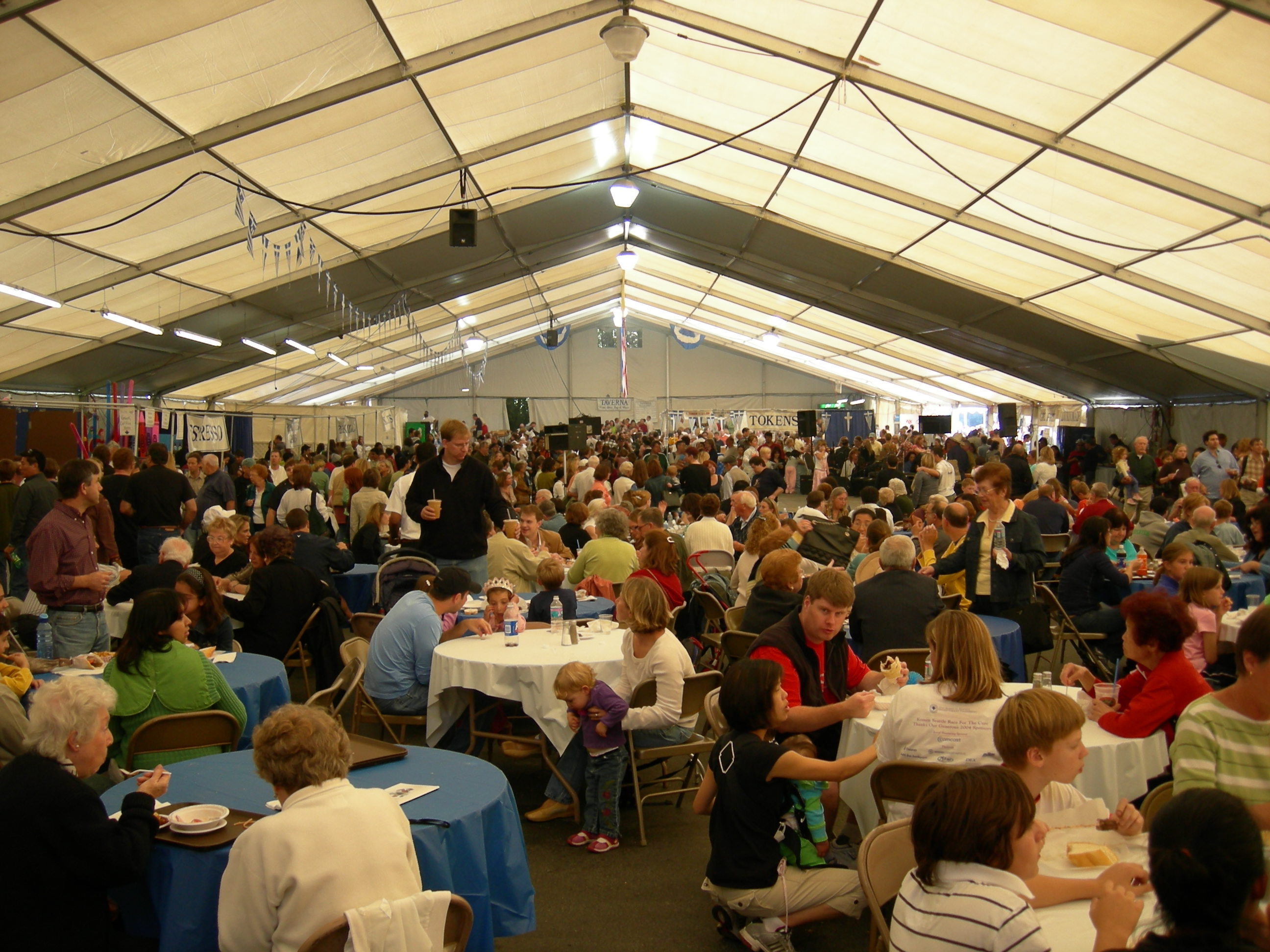 Crowd in pavillion tent, St. Demetrios Greek Festival, Seattle, Washington